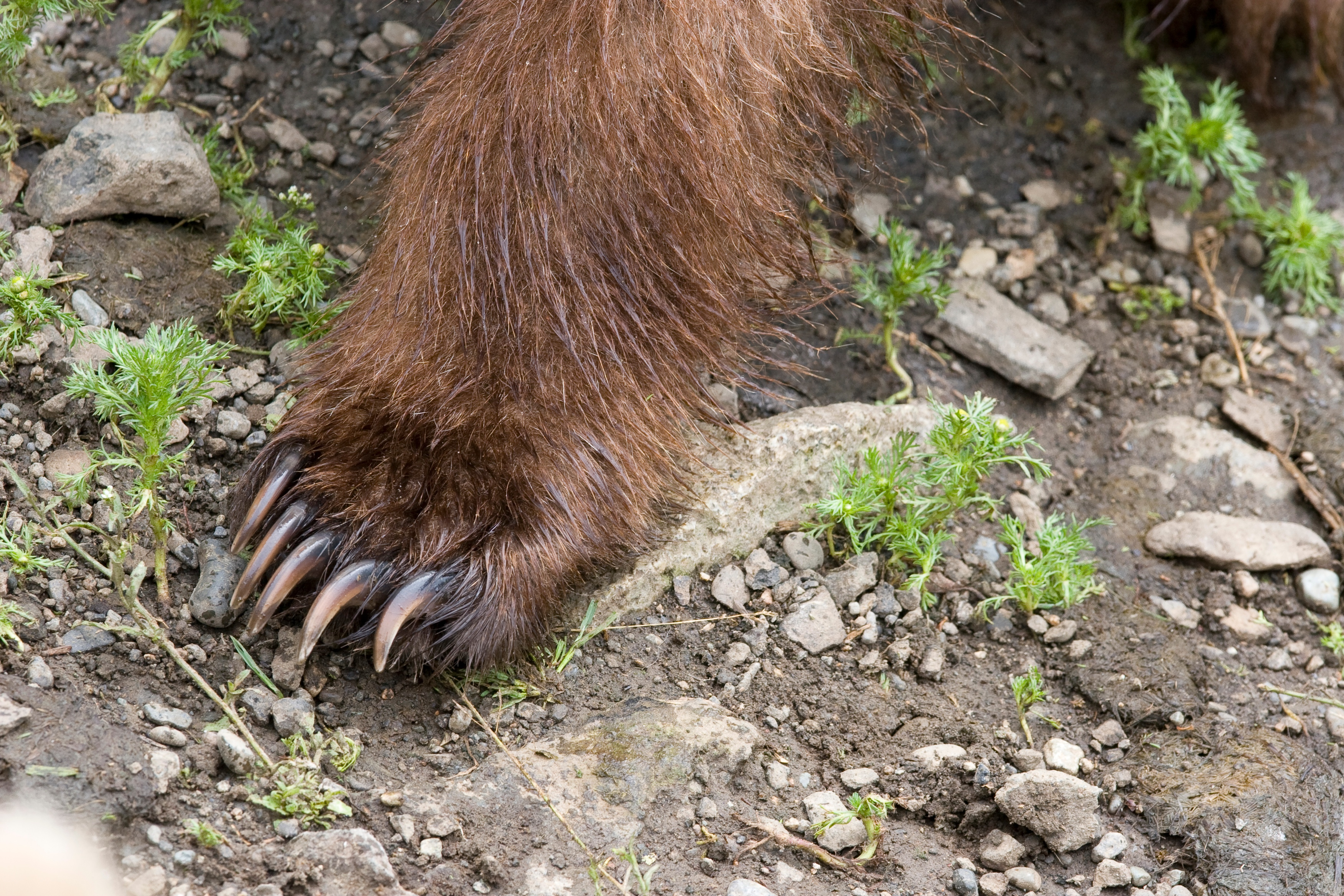 The claw of a brown bear (Ursus arctos)._MG_0166-3